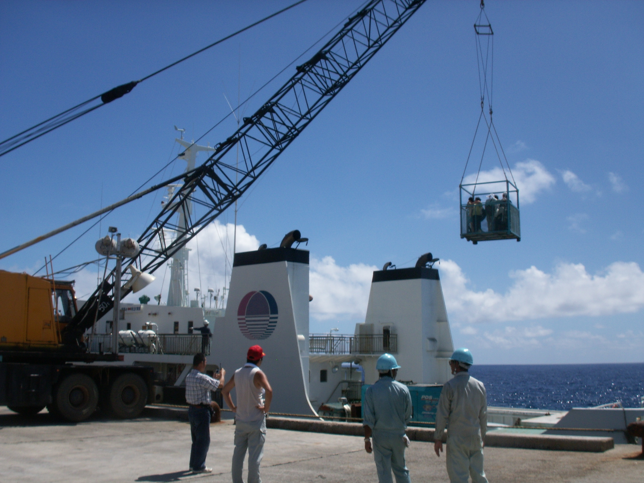 The port of Minamidaito Village in Okinawa Prefecture, Japan